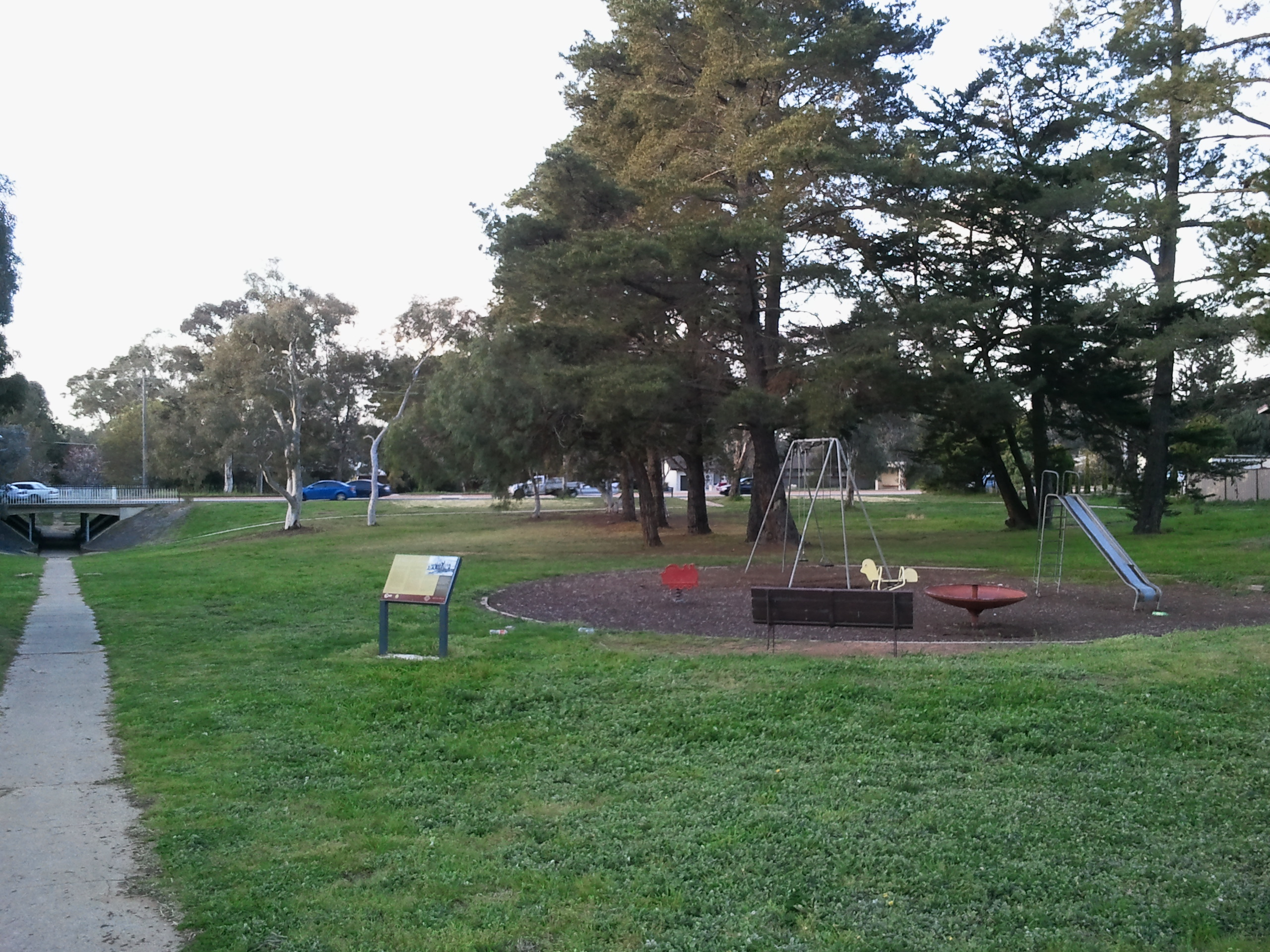 Site of the original Weetangera Public school, Weetangera, Australian Capital Territory.